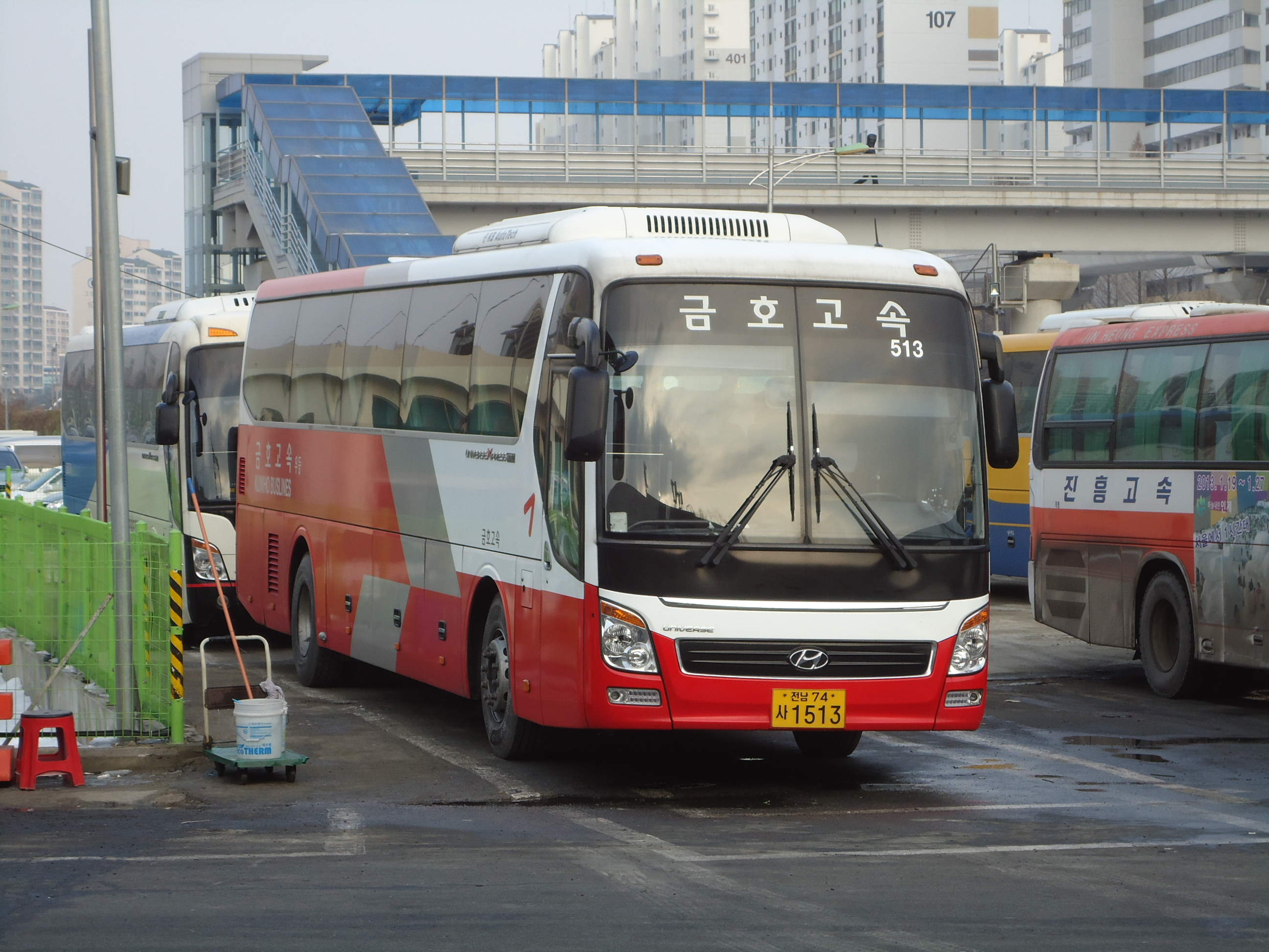 New Premium Universe Xpress Noble 2012 (Uijeongbu-Guri-Busan)-Kumho Buslines